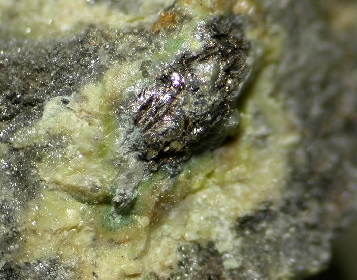 Sillénite, Bismuth Locality: Sauschwart Mine, Neustädtel, Schneeberg District, Erzgebirge, Saxony, Germany Greenish yellow Sillénite, surrounding remnant core of unaltered bismuth. Field of view 4 mm. Specimen and photo Leon Hupperichs.